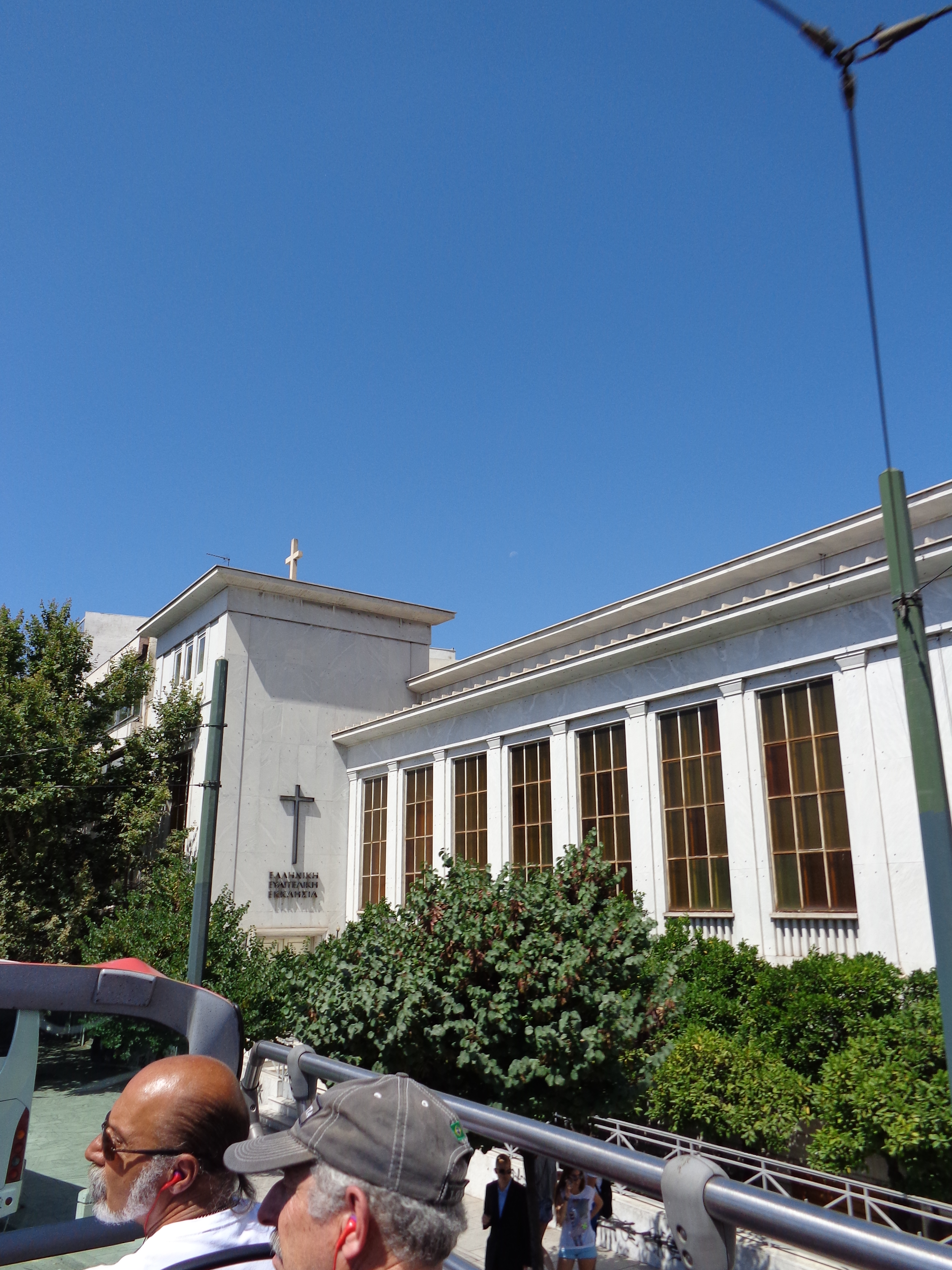 Building of the First Community of the Evangelical Church of Greece in Athens, 50 Amalias Ave., GR 105 58 ATHENS